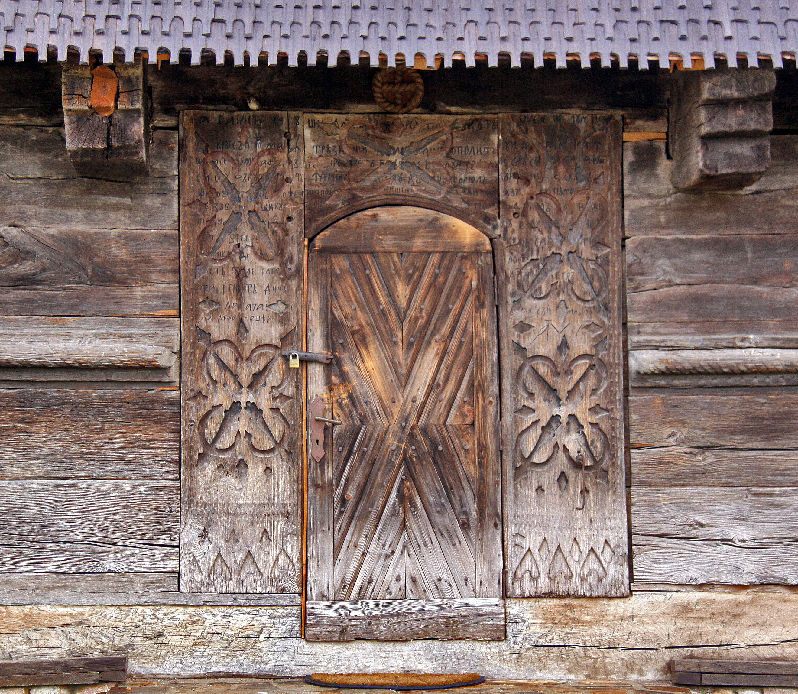 Cucuceni, Bihor: the wooden church initially in Ghighişeni. The portal towards West.